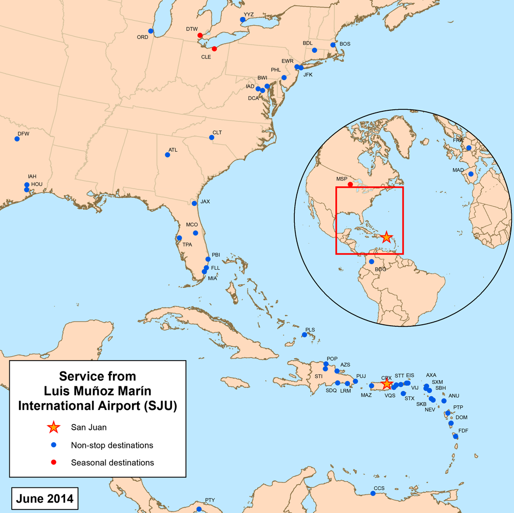 This is a route map for Luis Muñoz Marín International Airport in San Juan, Puerto Rico as of March 2010. Map is an Azimuthal equidistant projection centered on the airport so straight lines from San Juan are along great circle routes. Destinations gathered from individual airline websites.